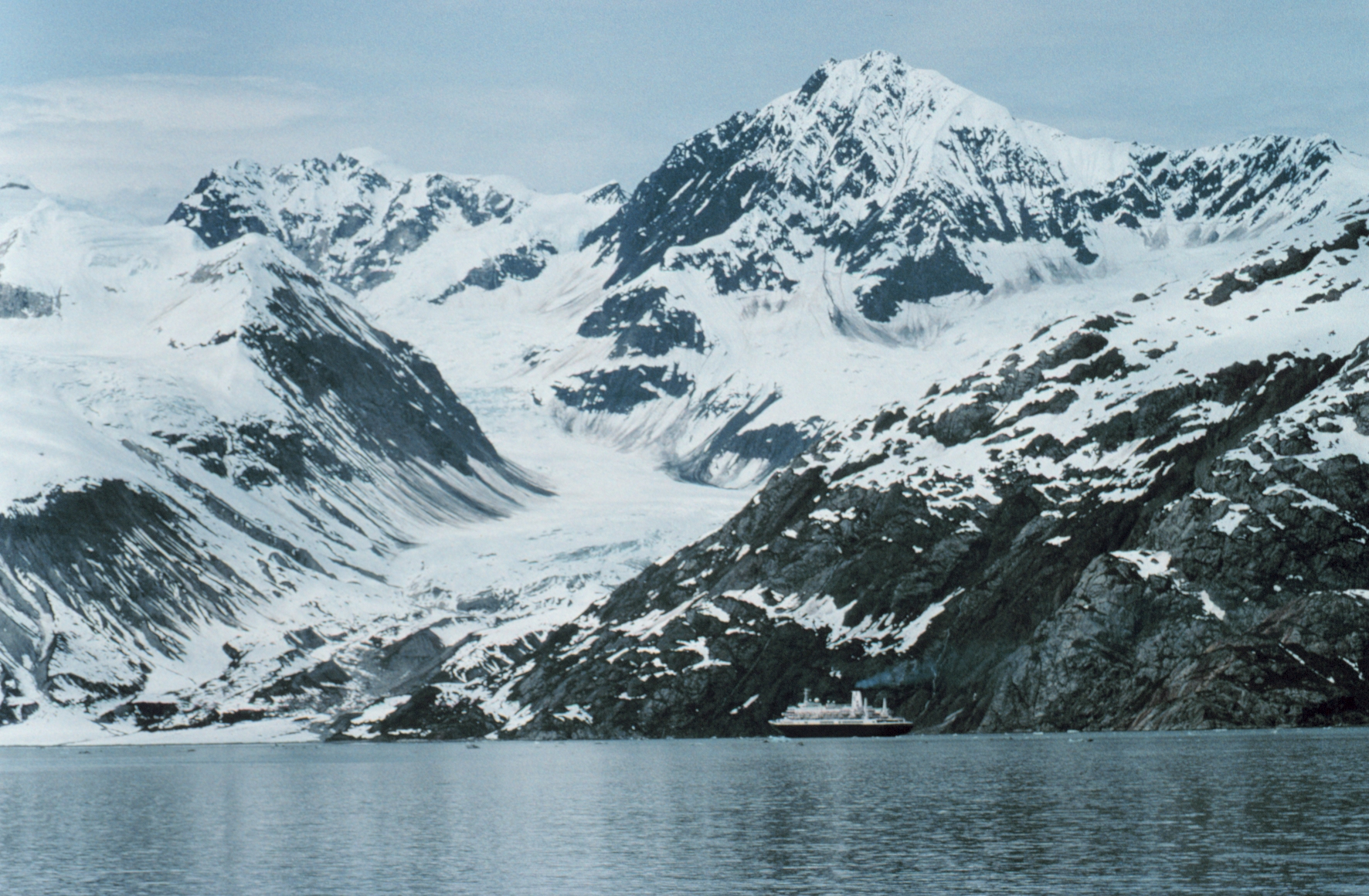 A cruise ship dwarfed by the magnificence of Glacier Bay[1]